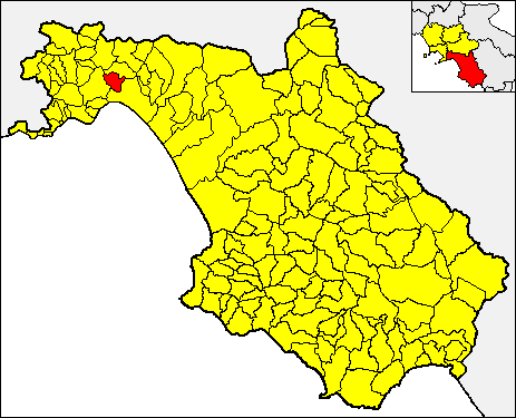 Locator map of the municipality of Pellezzano (red) within the Province of Salerno